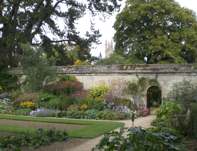 Oxford Botanic Gardens With Magdalen College tower in the background